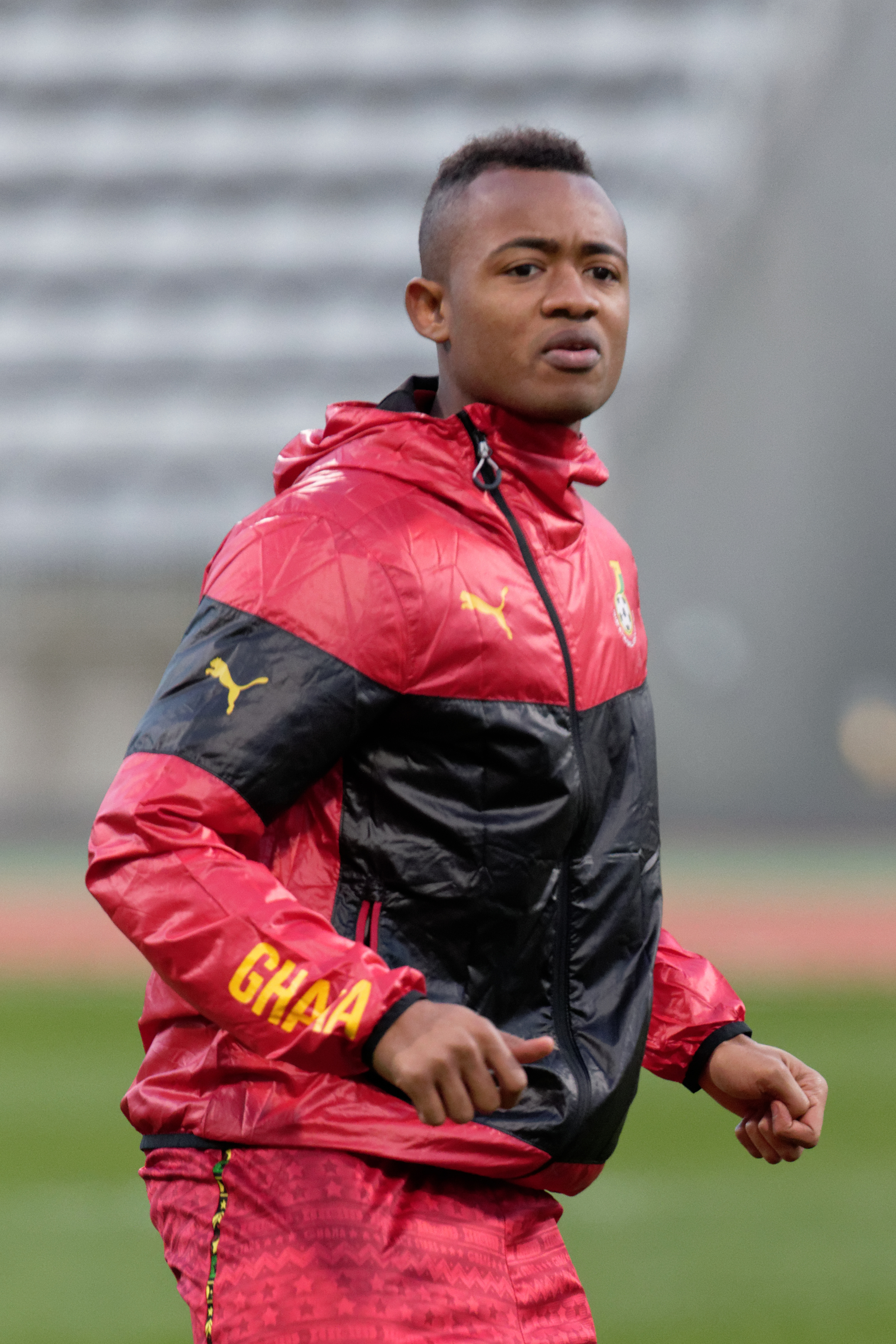 Mali vs Ghana, exhibition game at Paris, 31st March 2015.